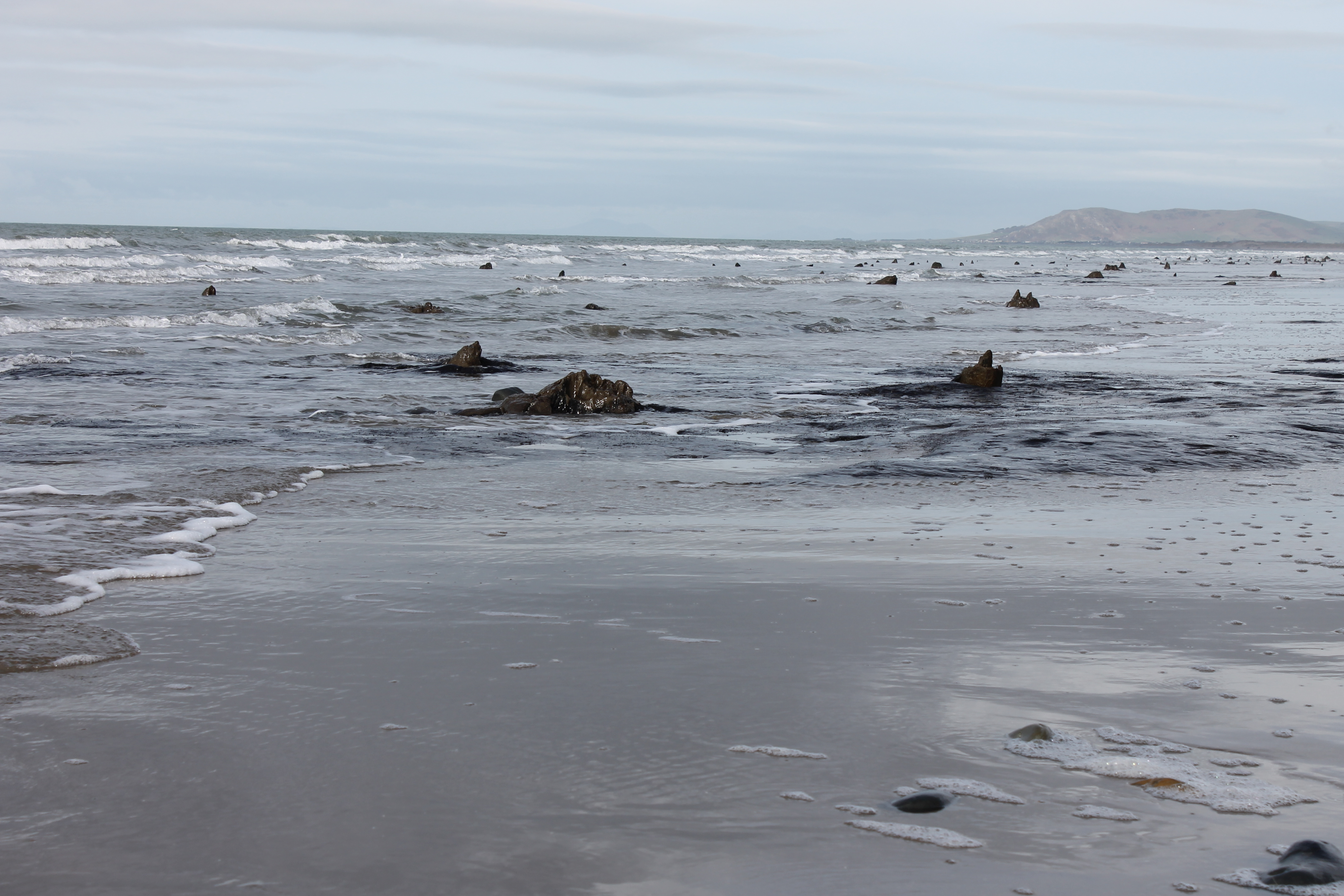 Fossilised tree stumps between Borth and Ynys Las Wales